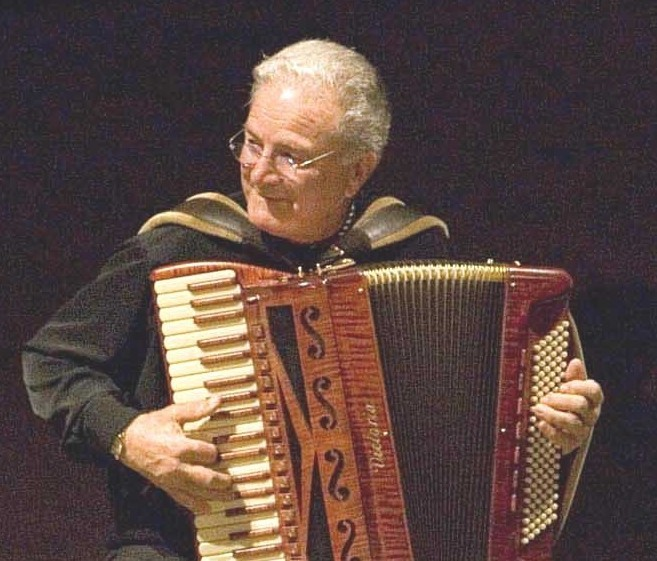 Frank Marocco, jazz accordionist. (Published with permission by Frank Marocco, May 19th 2008)